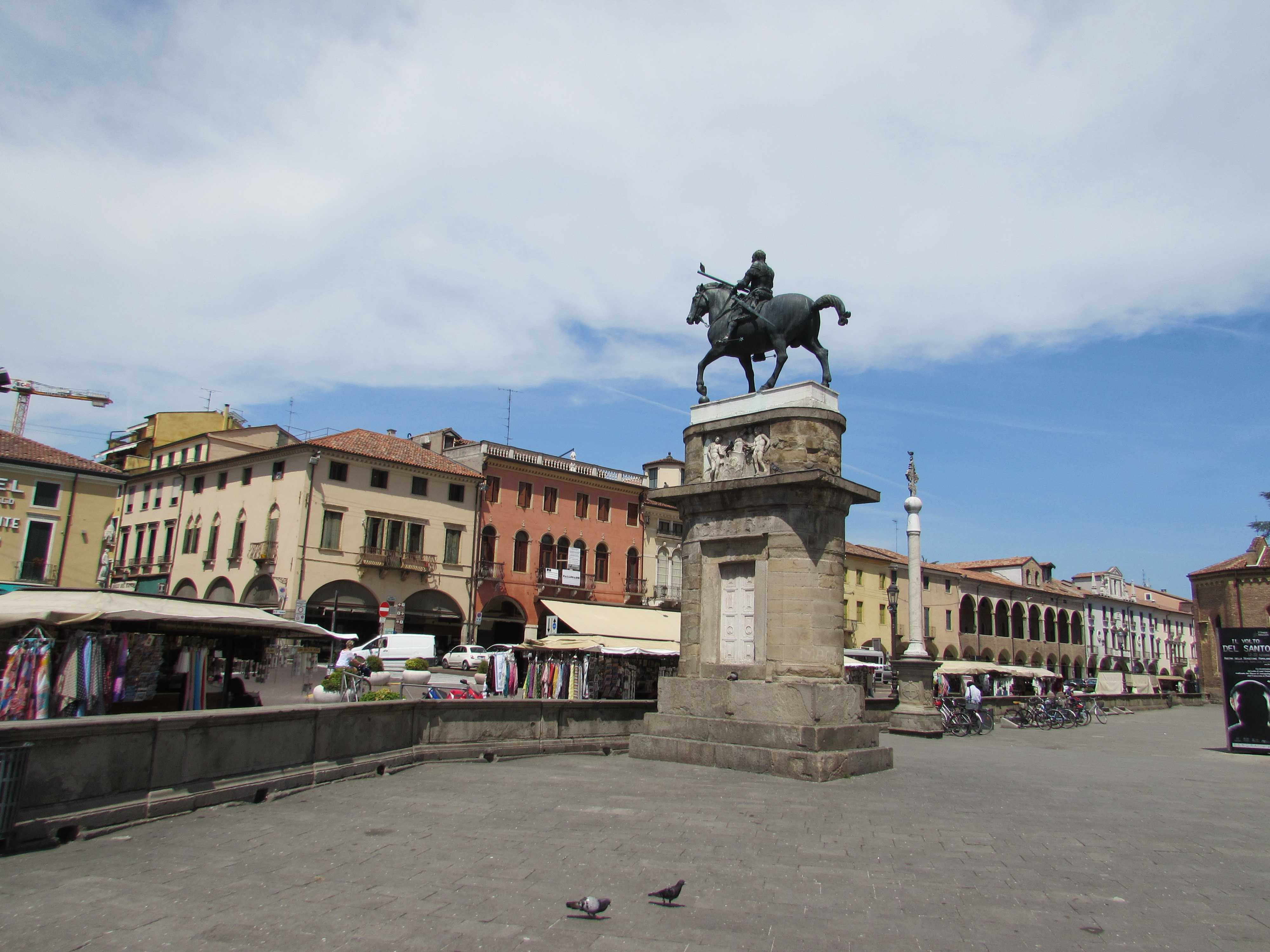 Equestrian statue of Gattamelata by Donatello, on Piazza del Santo (Padua)